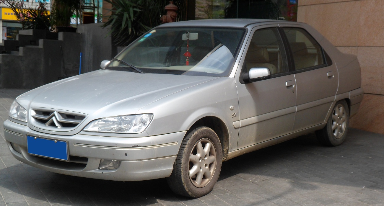 Citroën Elysée photographed in Shanghai, China.